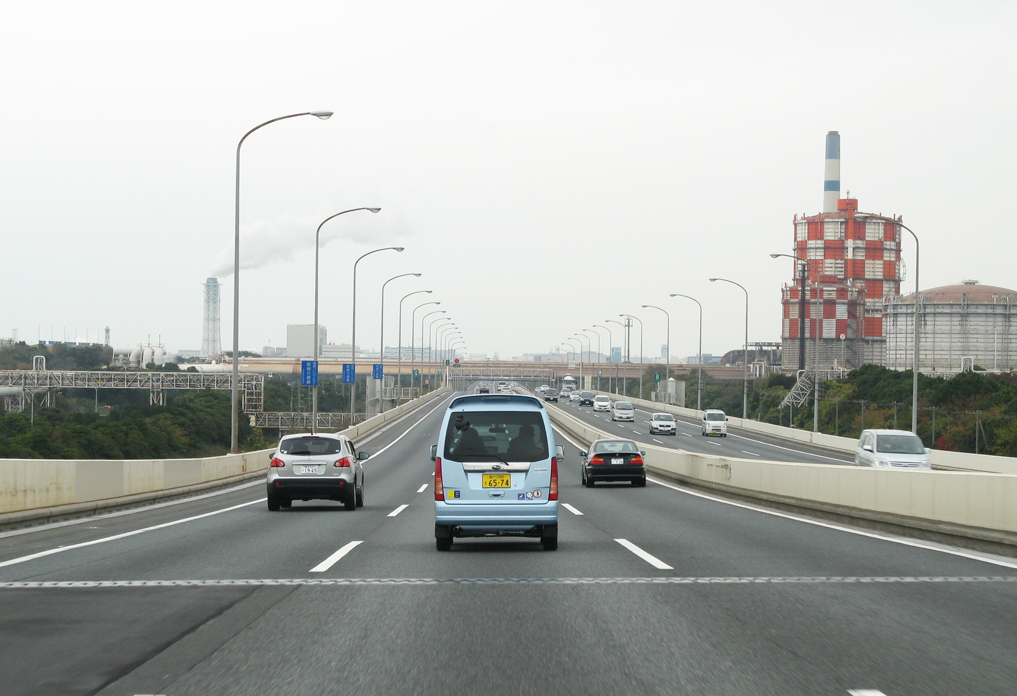 I took this photo.